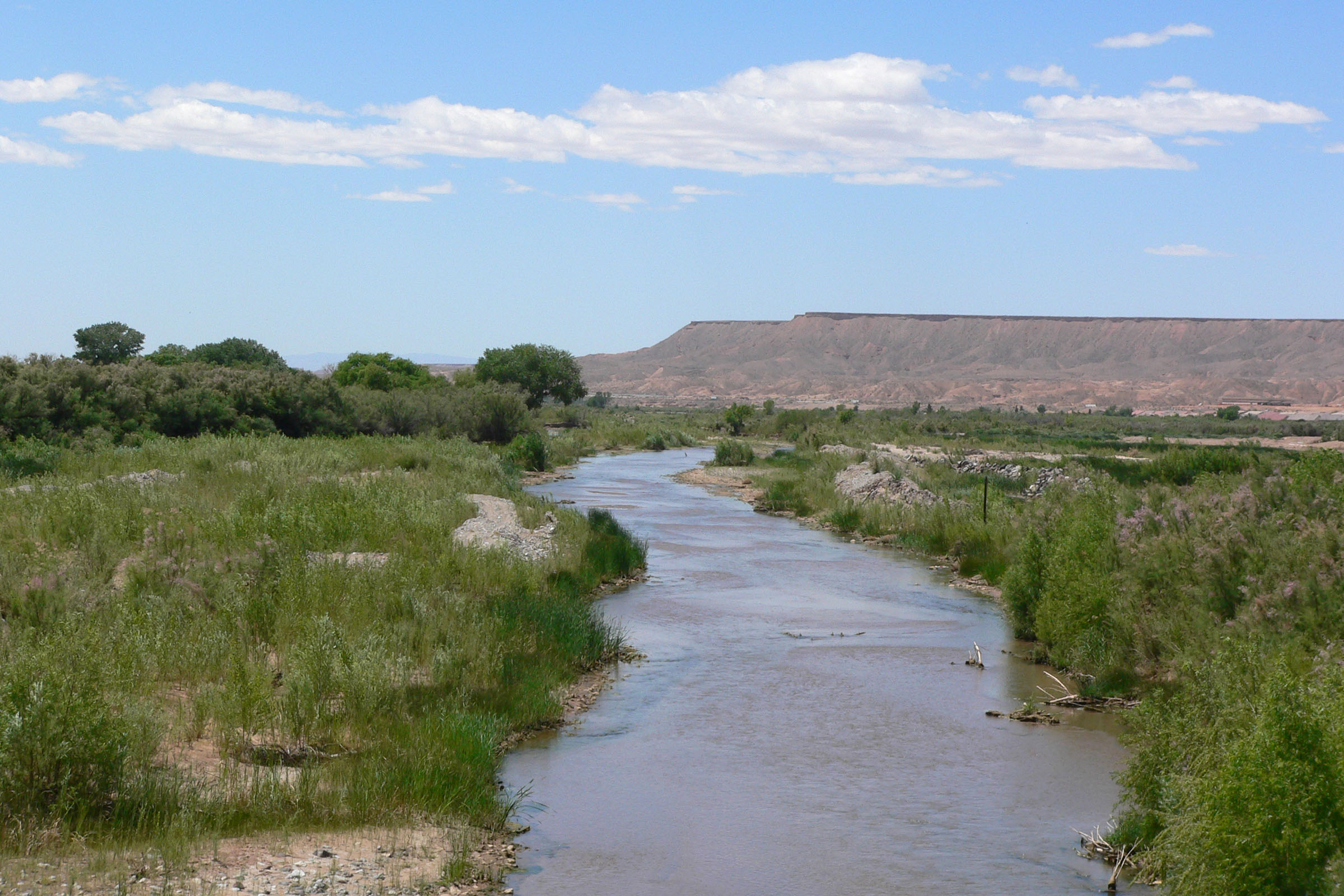 Virgin River southwest of Mesquite, Nevada